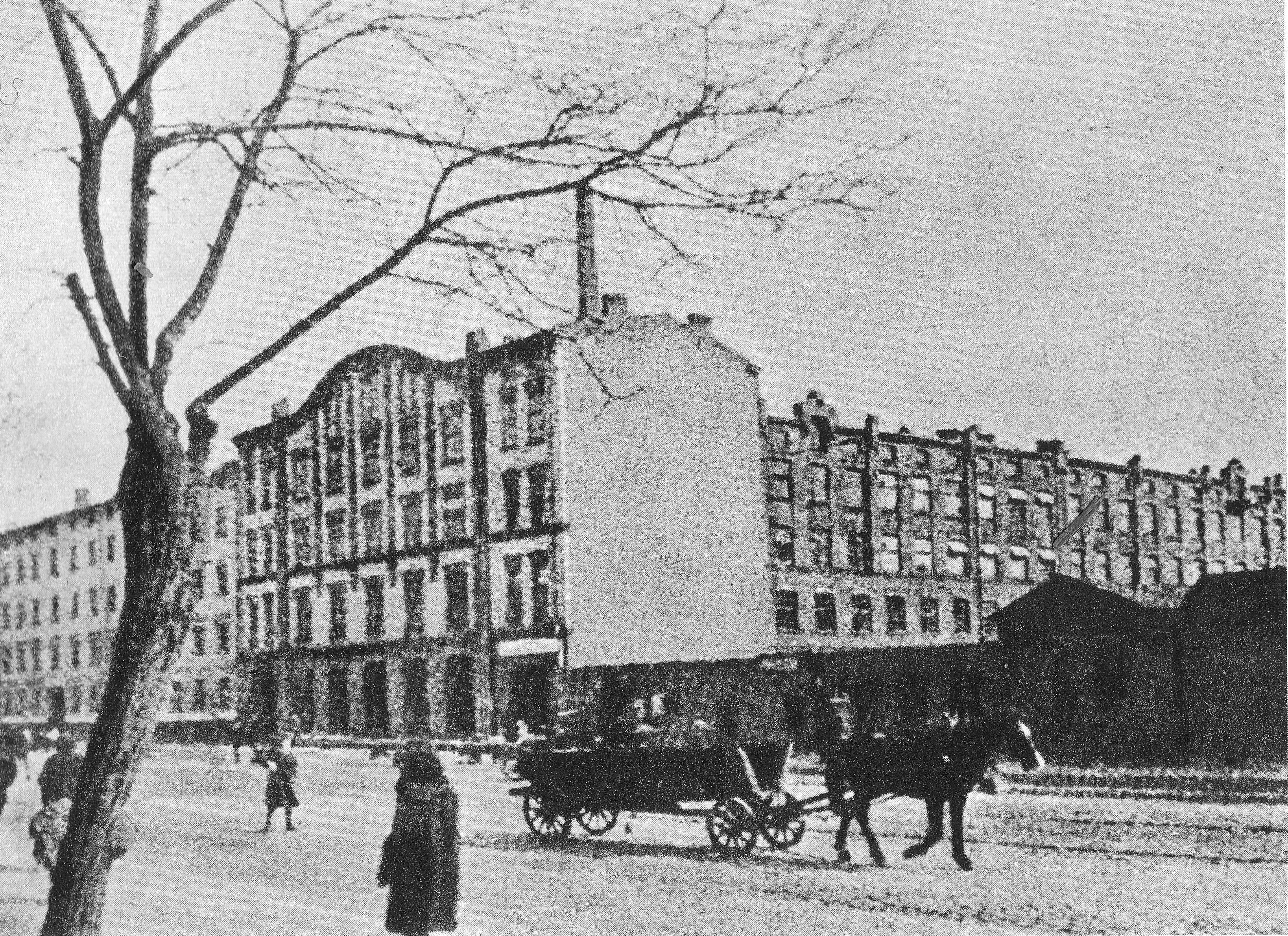 Fabryka Obić i Papierów Kolorowych Józefa Franaszka at 41/45 Wolska Street in Warsaw in the interwar period